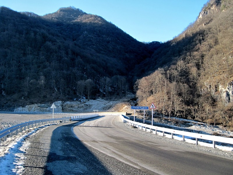 A motorway in the mountains of North Ossetia.